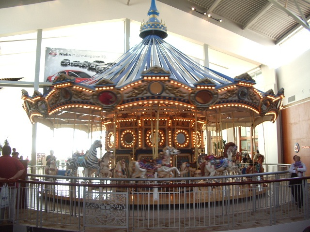 Carousel located inside the Westfield Galleria at Roseville, May 15, 2010